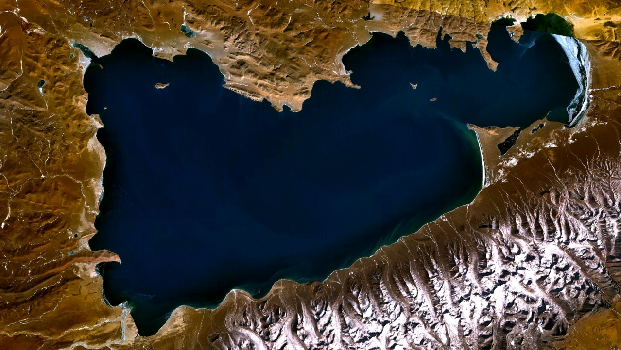 Namtso, in Tibet, as seen from space.